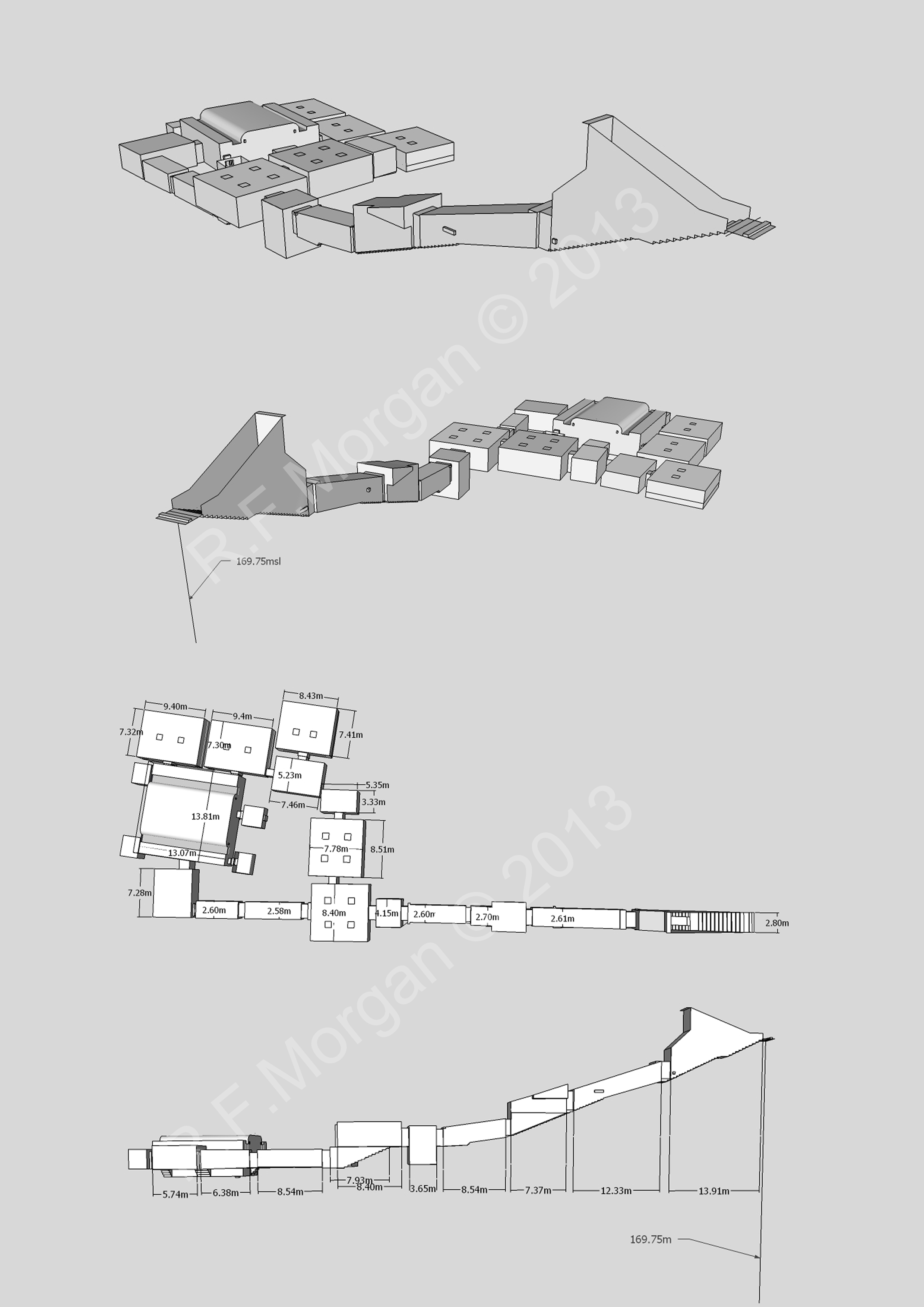 Isometric, plan and elevation images of KV7 taken from a 3d model